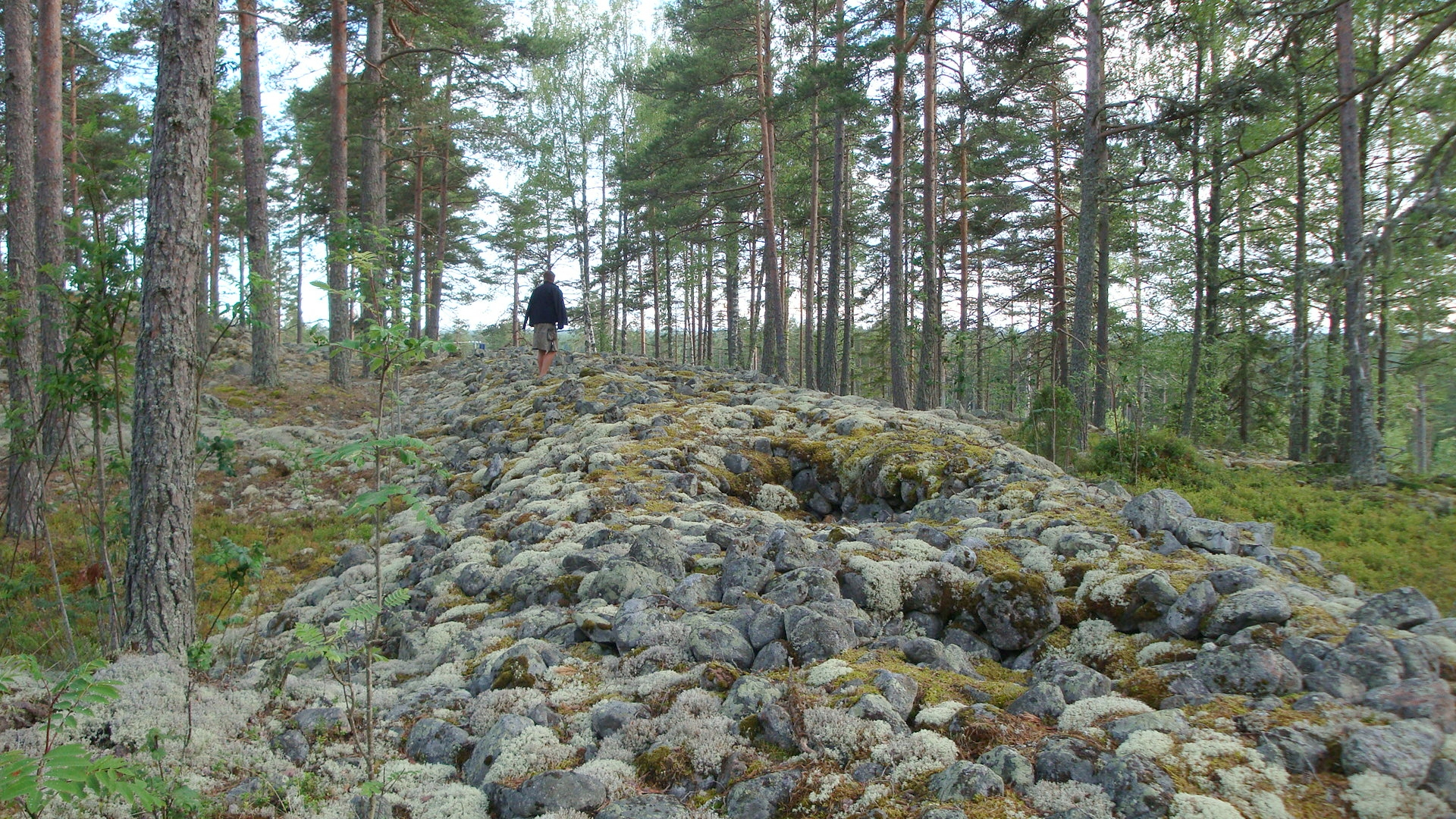 The 40-meter long Bronze Age longbarrow in the hamlet of Svartvik, Norrala parish, in the province of Hälsingland, Sweden. (Riksantikvarieämbetet's ID: Norrala 19:1) Next to this one is a smaller longbarrow – with a stone-cist – (RAÄ ID: Norrala 19:2) and one small cairn (Norrala 19:3). The pits in the graves are probably the remains of collapsed coffins.